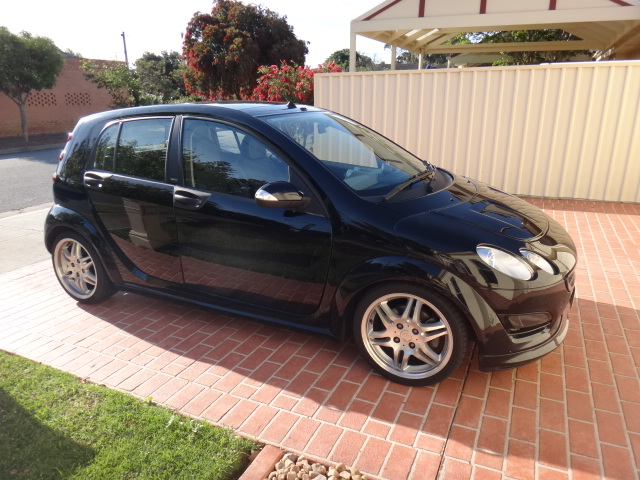 It was a bargain!! A 2006 Smart ForFour Brabus with 52,200km on the clock, 5 speed manual, 1.5L 4 cylinder Turbo petrol engine with 130kW's going through the front wheels. It handles like a go kart, just sticks to the road like glue and surprises everyone when I take off from the lights!!